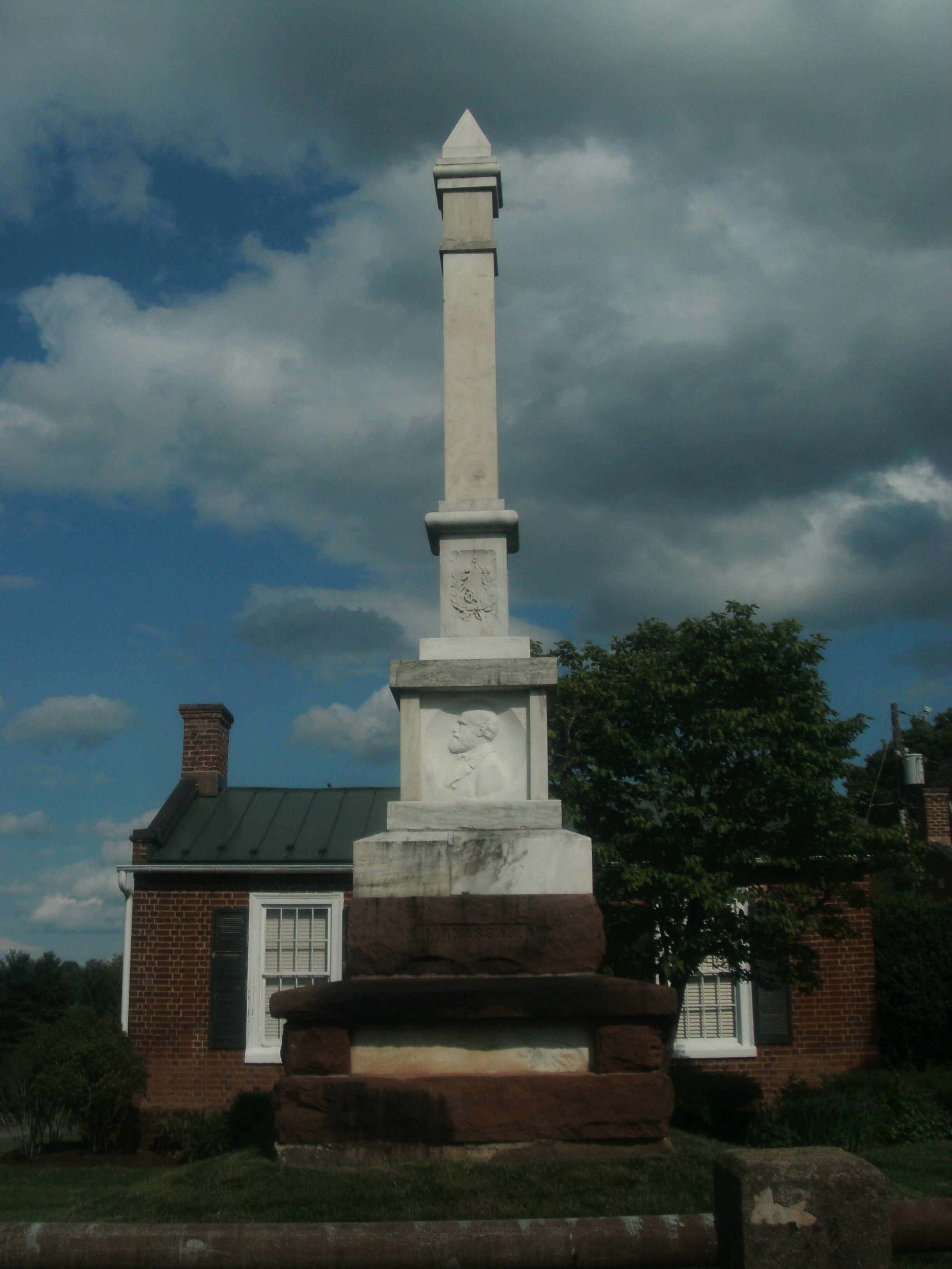 Taken by me in May, 2016 GEDSC DIGITAL CAMERA